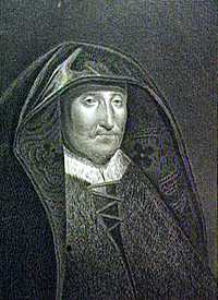 Portrait of the Countess of Desmond in the Collection of the Earls of Grandison at Dromana, County Waterford. The picture, on an oak panel, was painted in the late 16th. century